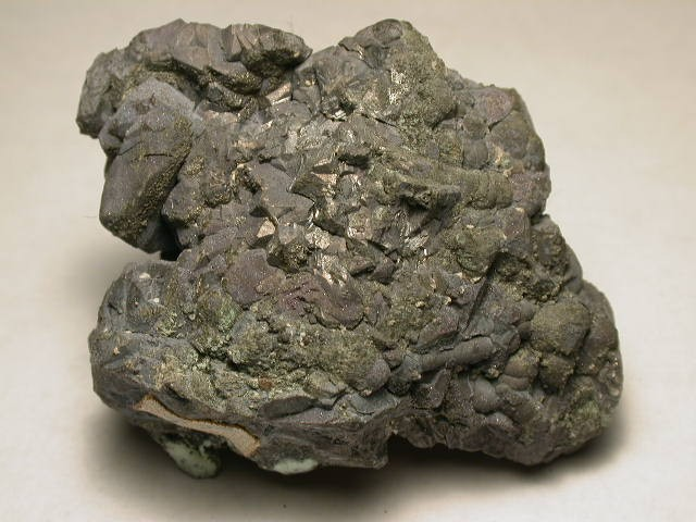 Chloanthite, variety of Nickel-skutterudite Locality: Cobalt-Gowganda region, Timiskaming District, Ontario, Canada Original description: A 5.4 by 4.1 cms mass of crystals on the massive material. JSS specimen and photo. Not analysed, probabably skutterudite (